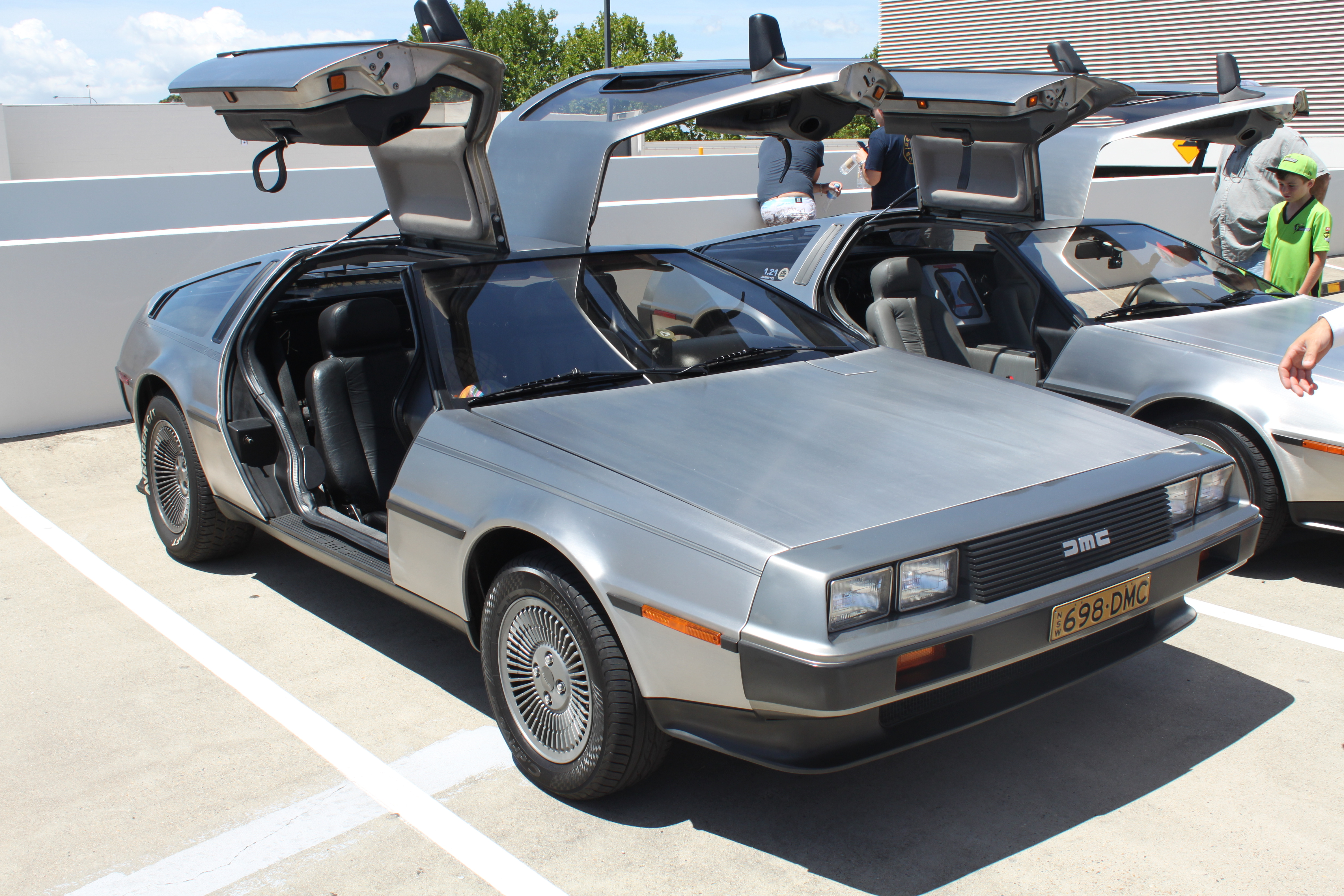 American Car Show, Castle Hill, NSW 2015